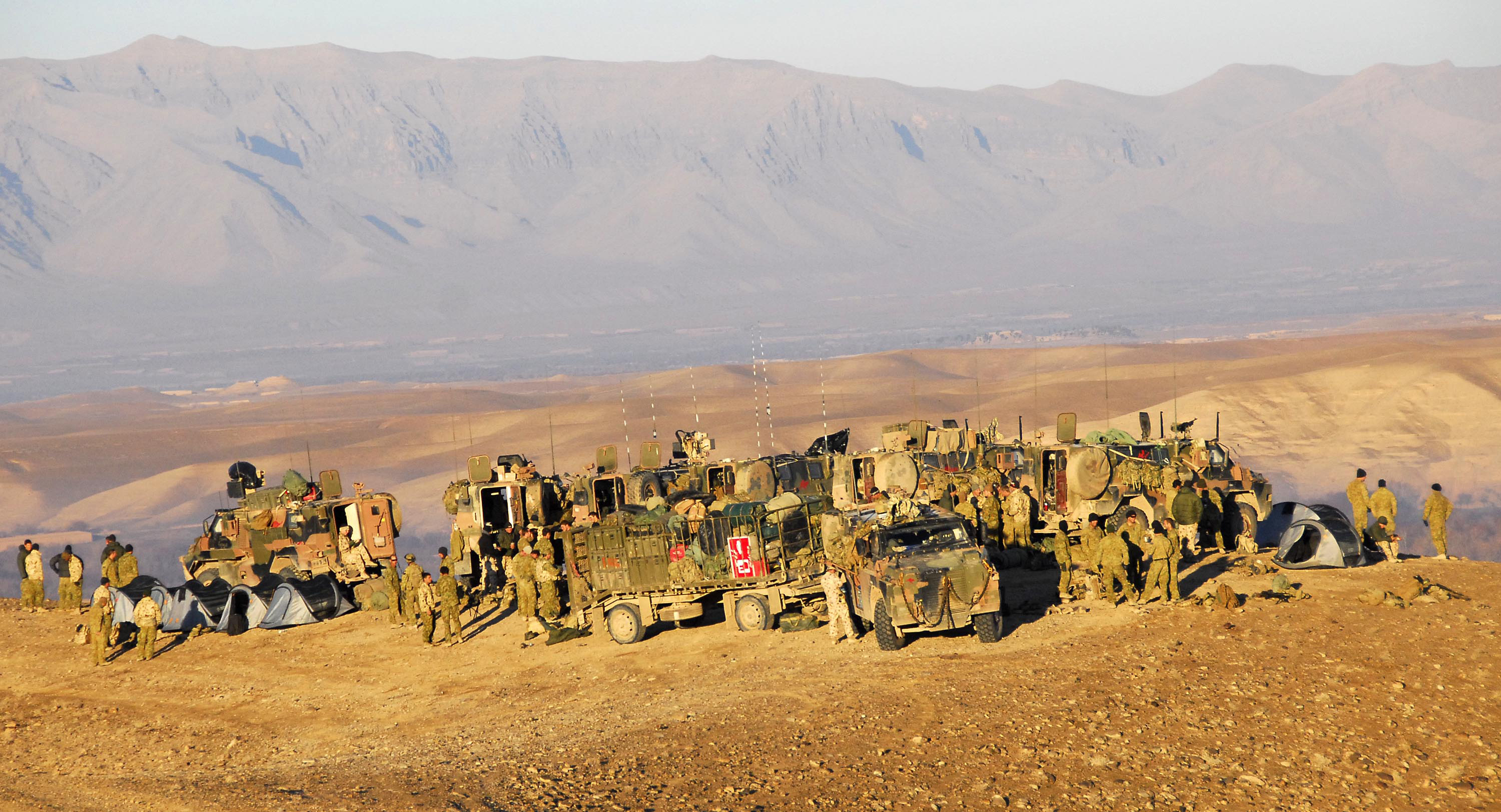 Early moming in the Mirabad Valley A major operation conducted by Australian and Afghan National Army (ANA) Forces has experienced success, uncovering a significant number of caches to the east of Tarin Kowt, Uruzgan Province, Southern Afghanistan. Twenty-three caches have been found since the operation began on the 1st of January. The contents included Improvised Explosive Device (IED) components, rocket propelled grenades, mortars, home-made explosive and thousands of rounds of small arms ammunition. (Photo courtesy Australian Department of Defence)